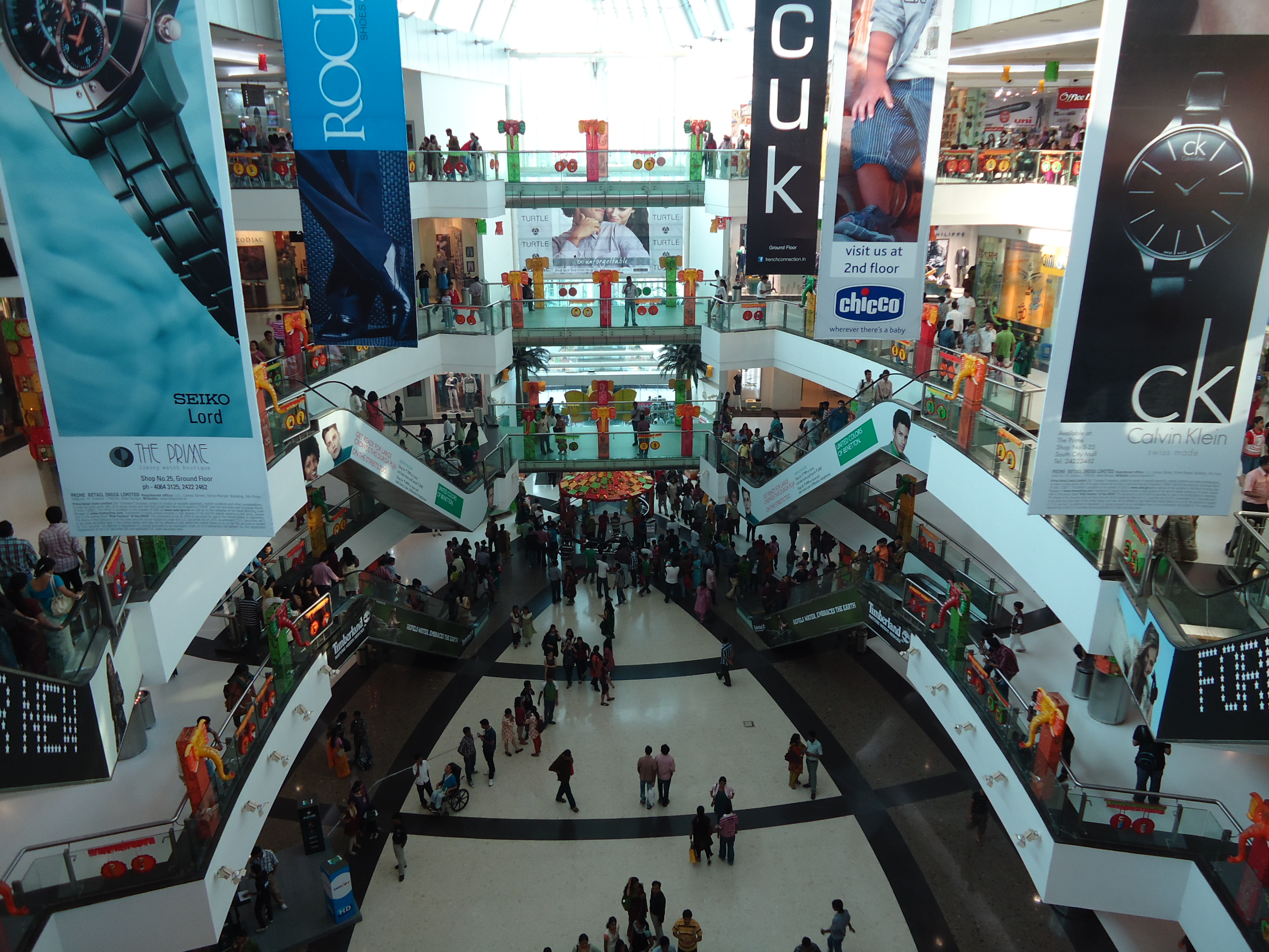 Inside view of South City Mall